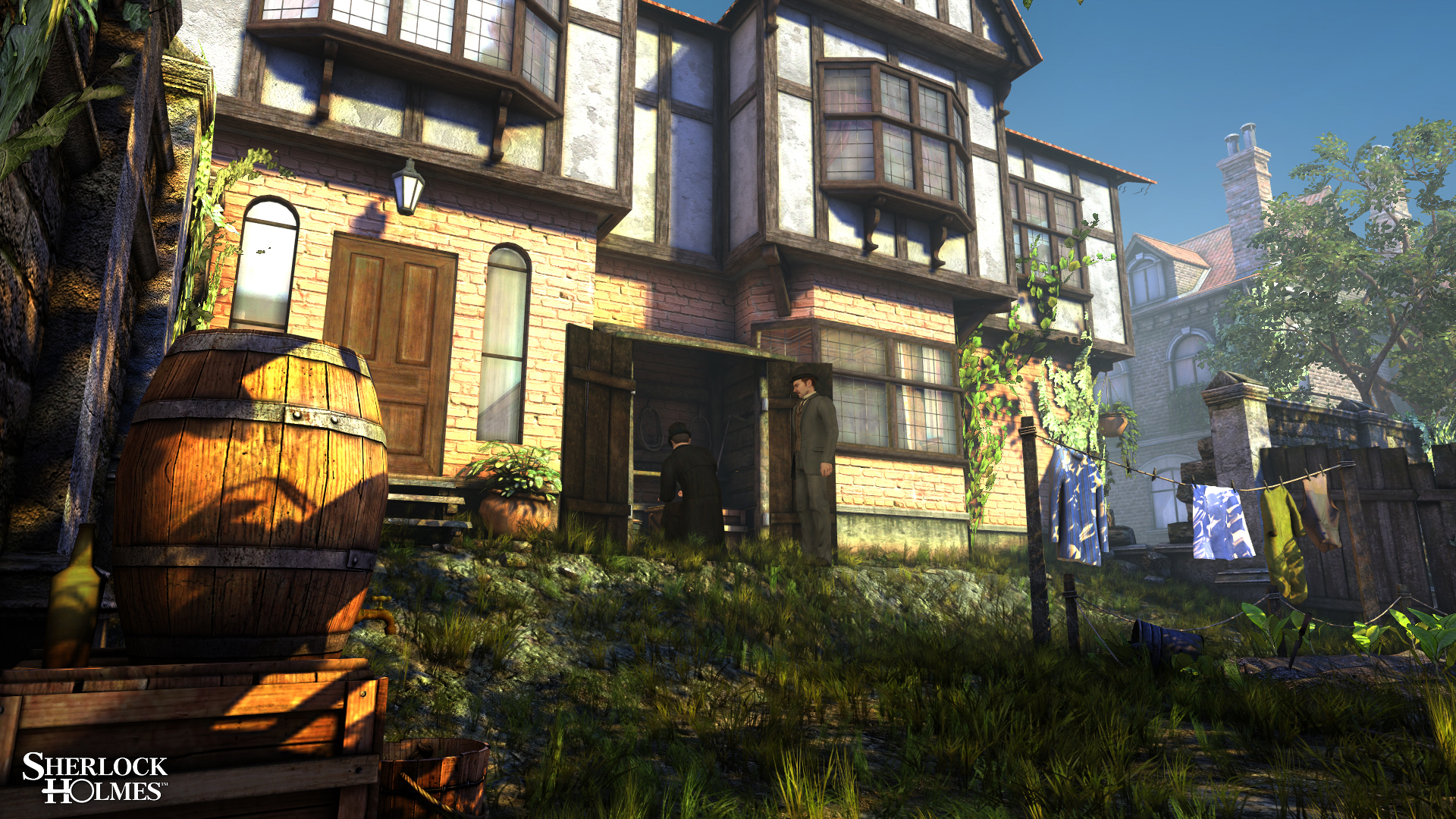 Screenshot from The Testament of Sherlock Holmes, a video game by Frogwares.